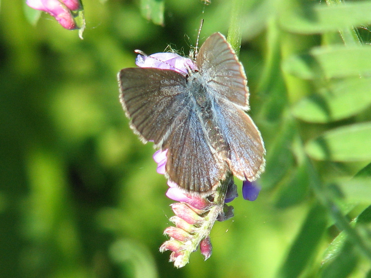 Silvery Blue (Glaucopsyche lygdamus couperii) near Rideau River, Ottawa, Ontario, Canada